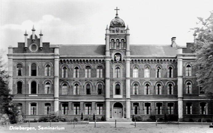 Rijsenburg seminary, Driebergen